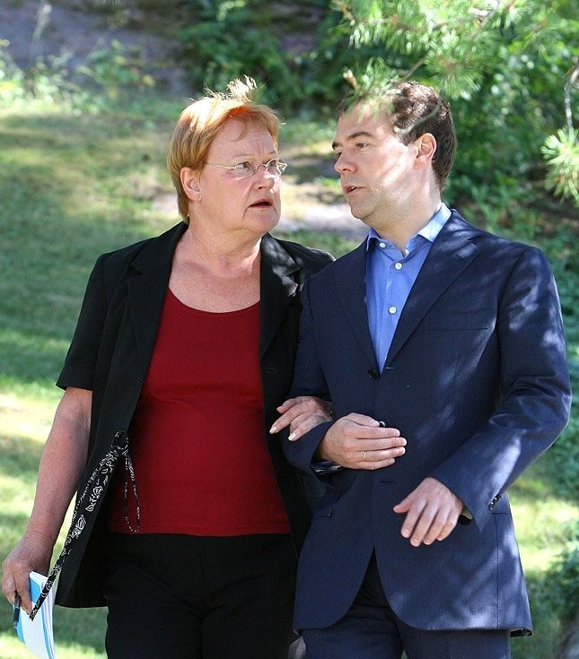 Before the start of talks with President of Finland Tarja Halonen.